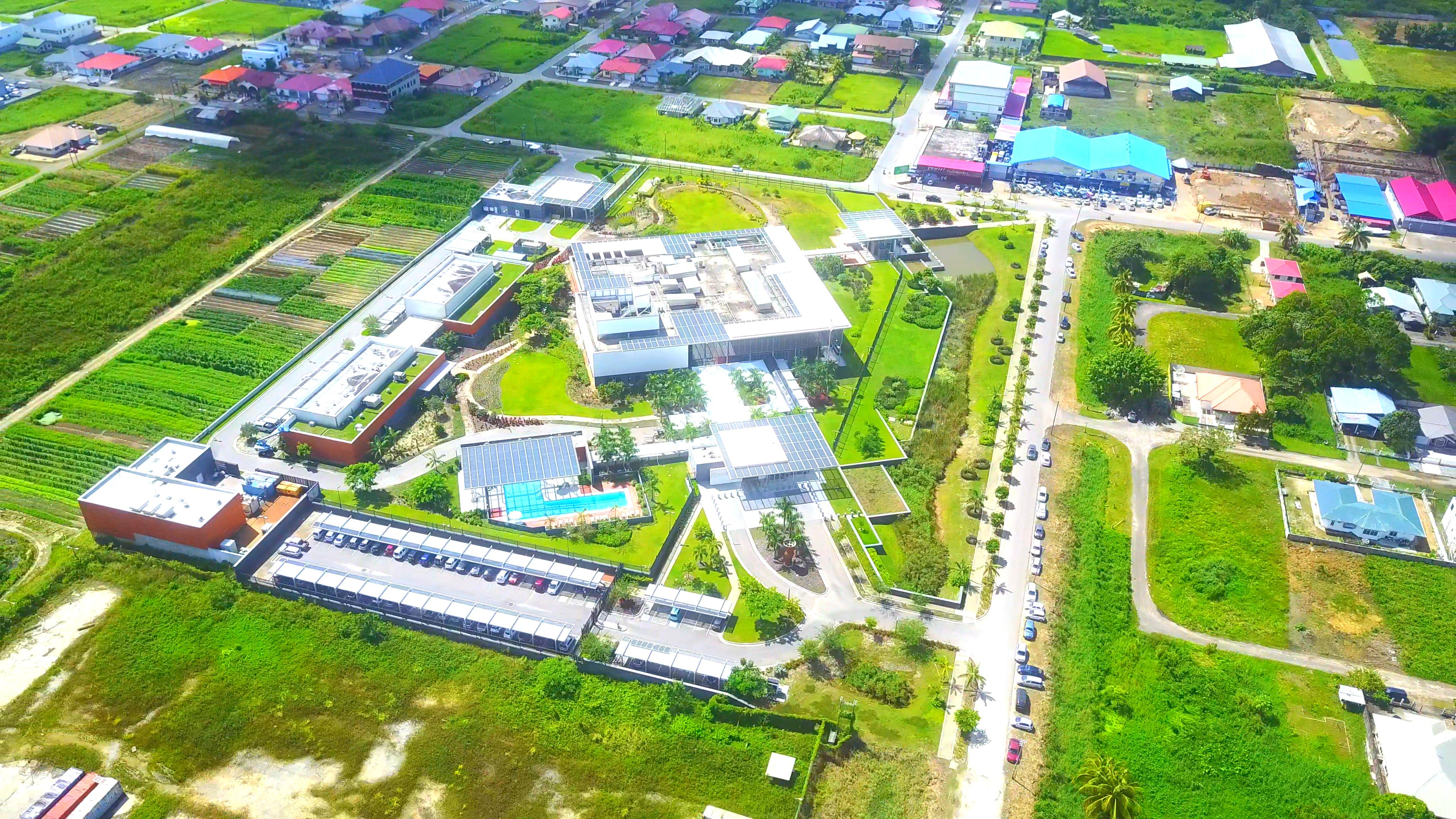 American embassy Paramaribo